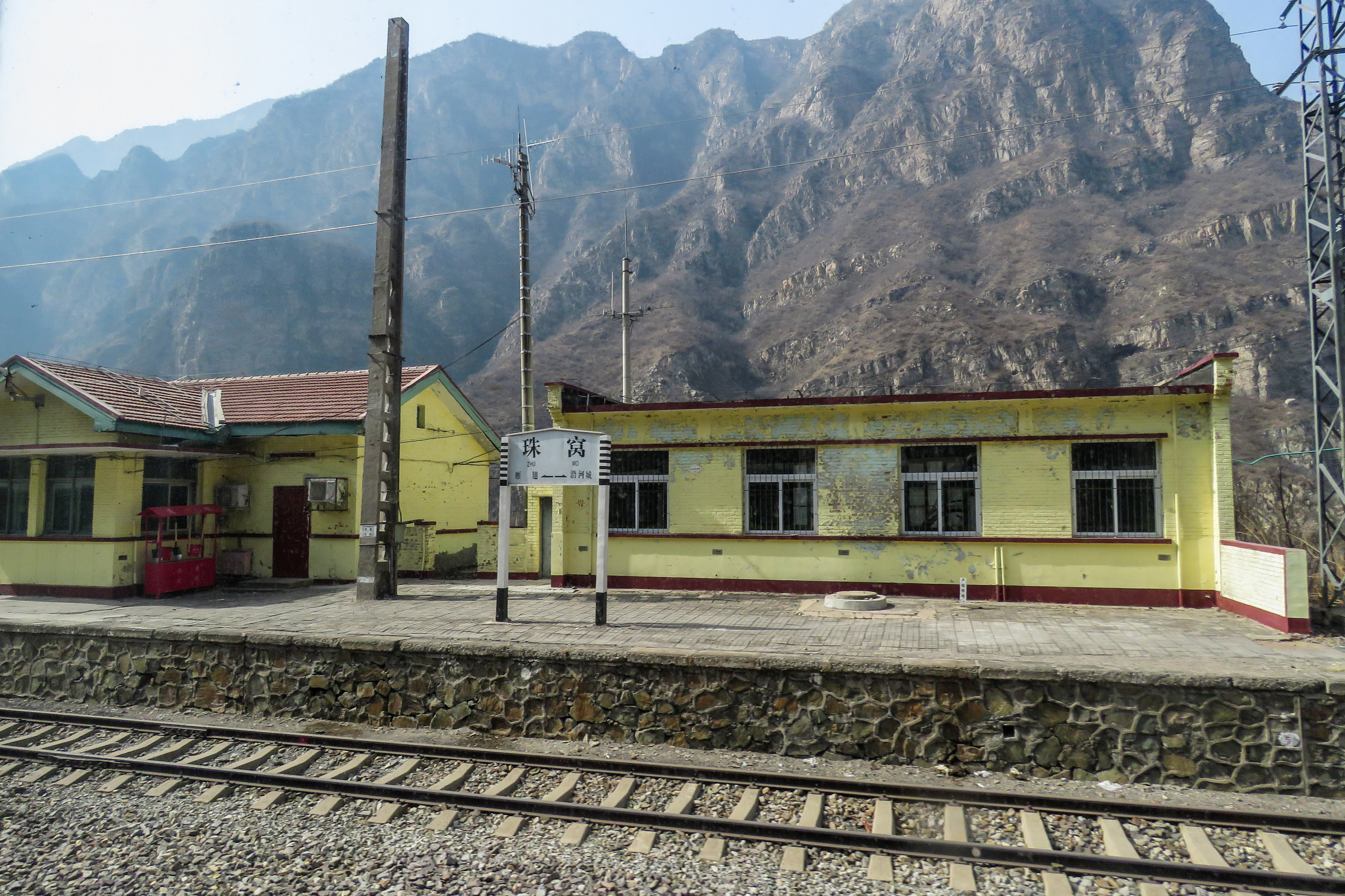 A station for outbound trains only. TMIS code: 13440.